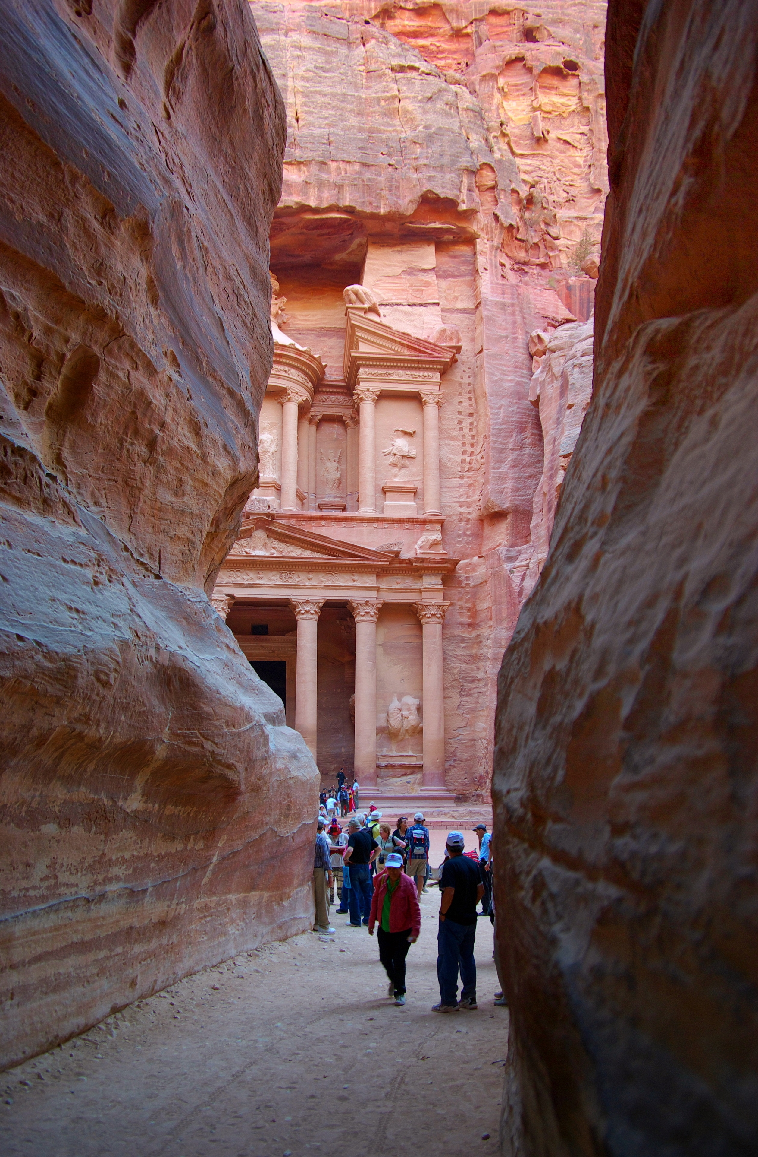 Petra, view on Al Khazneh from the siq